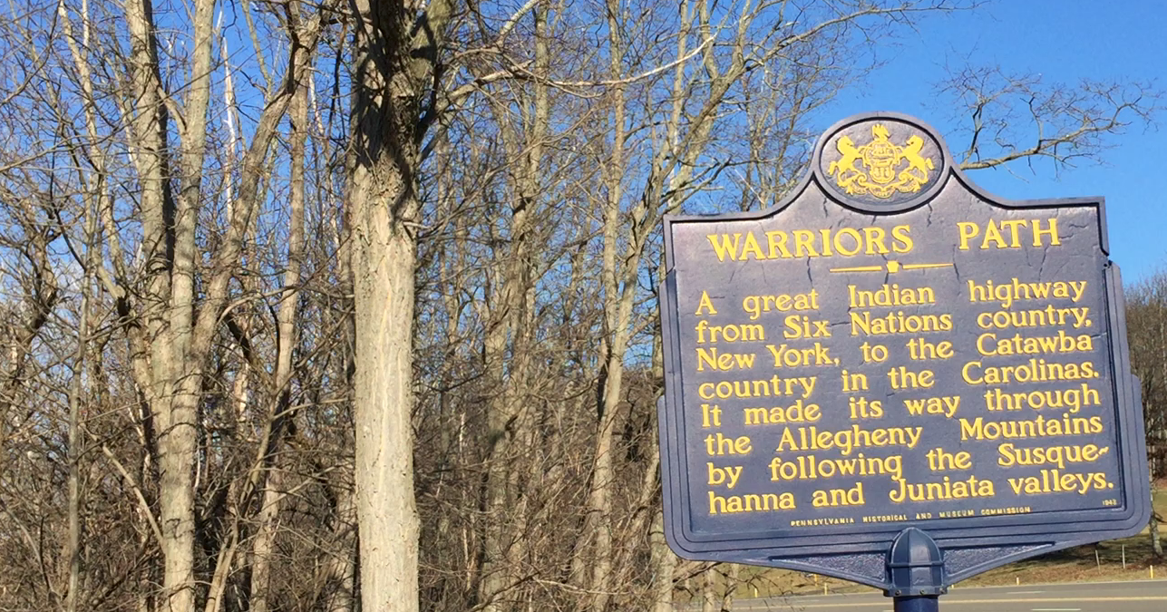 Warrior's Path Historic Marker located at Wyalusing Rocks - Wyalusing, PA - Scenic Overlook above the Susquehanna River